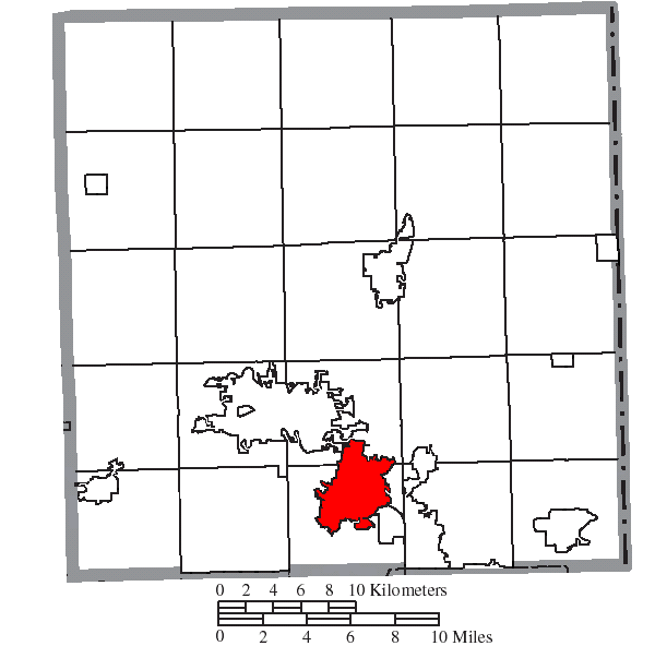 Map of the municipal and township boundaries of Trumbull County, Ohio, United States, as of the 2000 census, with the location of the city of Niles highlighted. Township borders are shown only in unincorporated areas in order to differentiate incorporated and unincorporated areas more clearly.